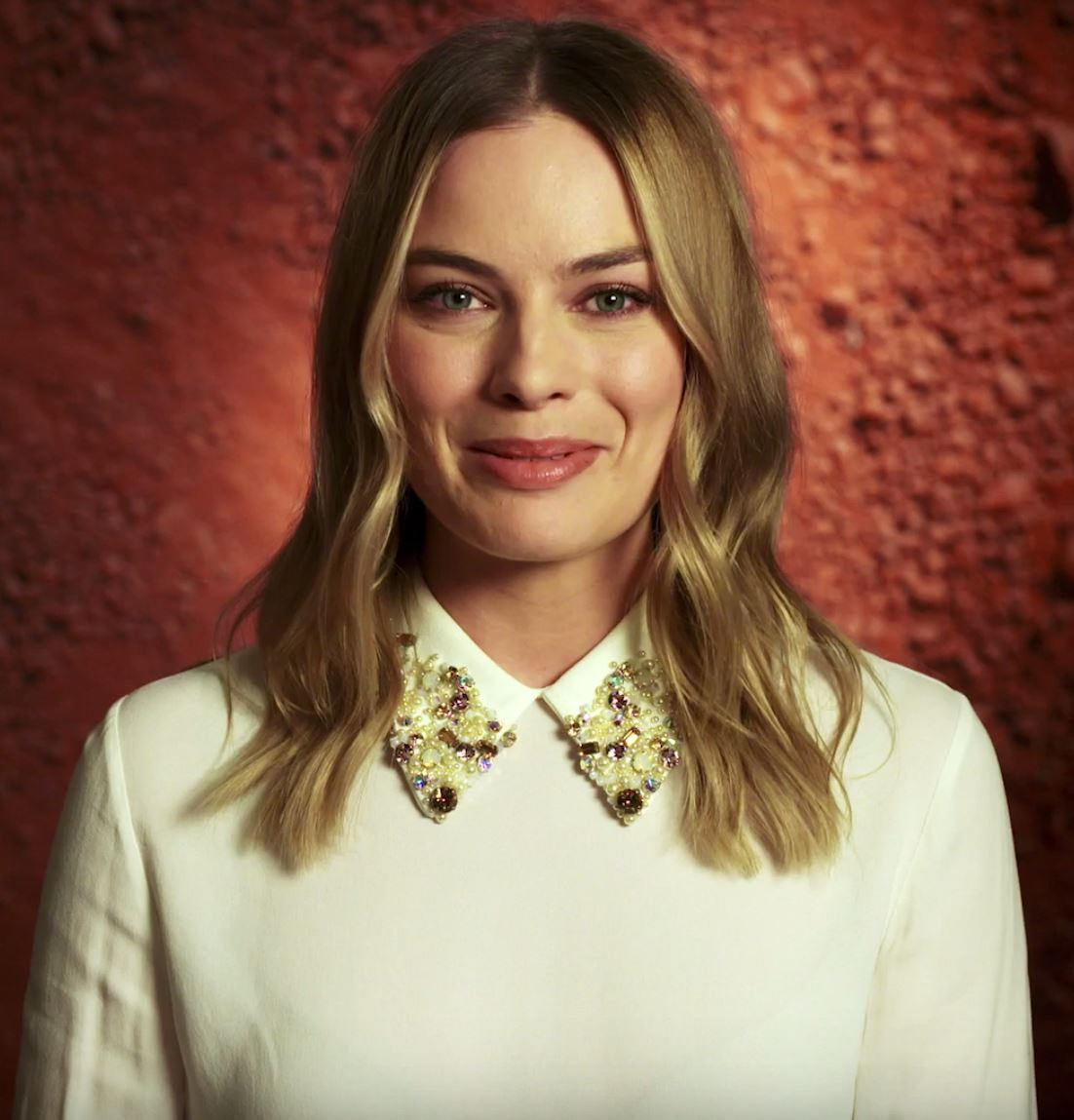 Cropped video still of Margot Robbie talking to camera about Oxfam's "I Hear You" project in December 2016